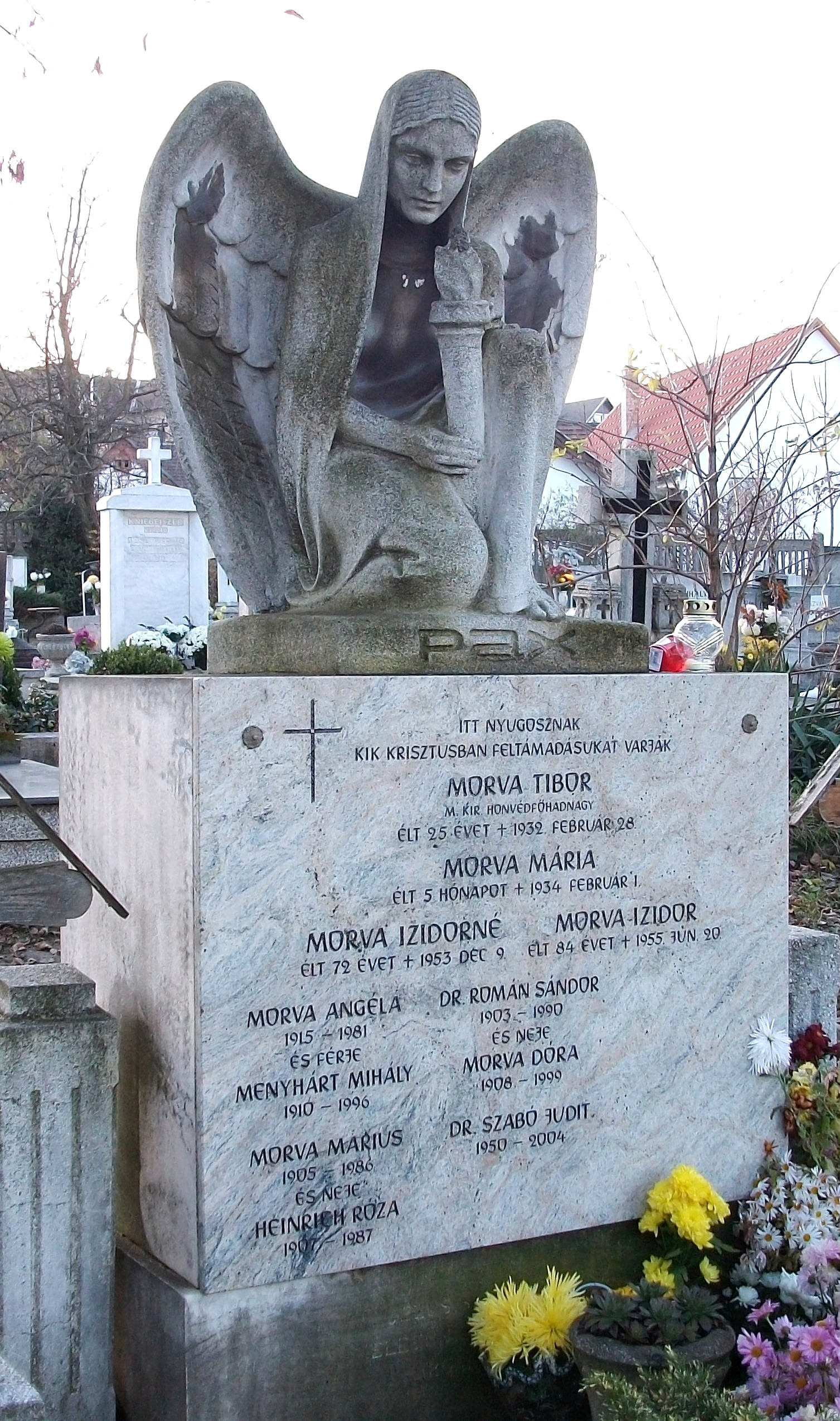 Gravestone of Morva family, Dorog, Hungary